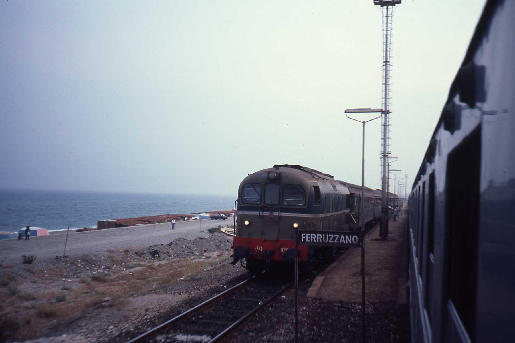 Train crossing on the Calabrian coastline with an old diesel loc at Ferruzzano.